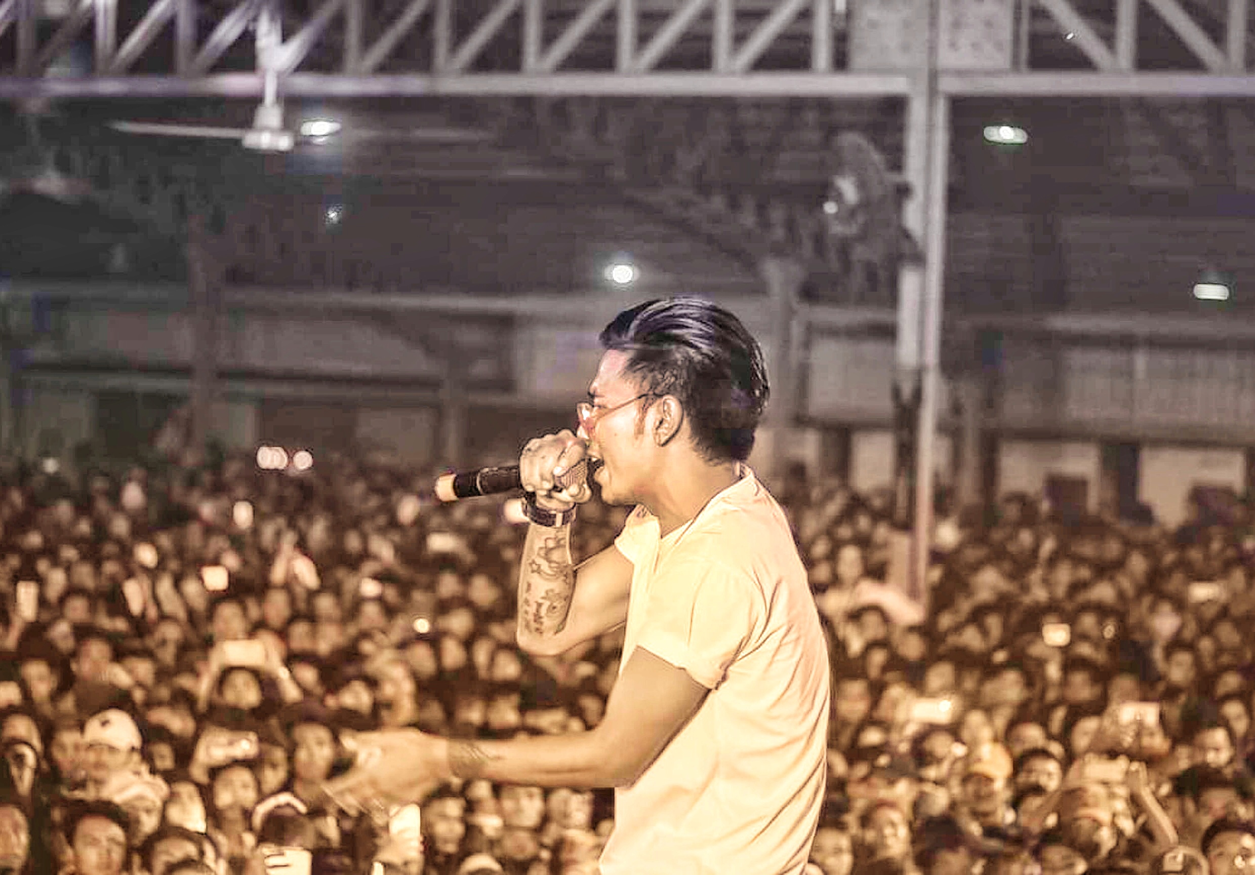 Singer Oasix perform in a concert at Yangon.